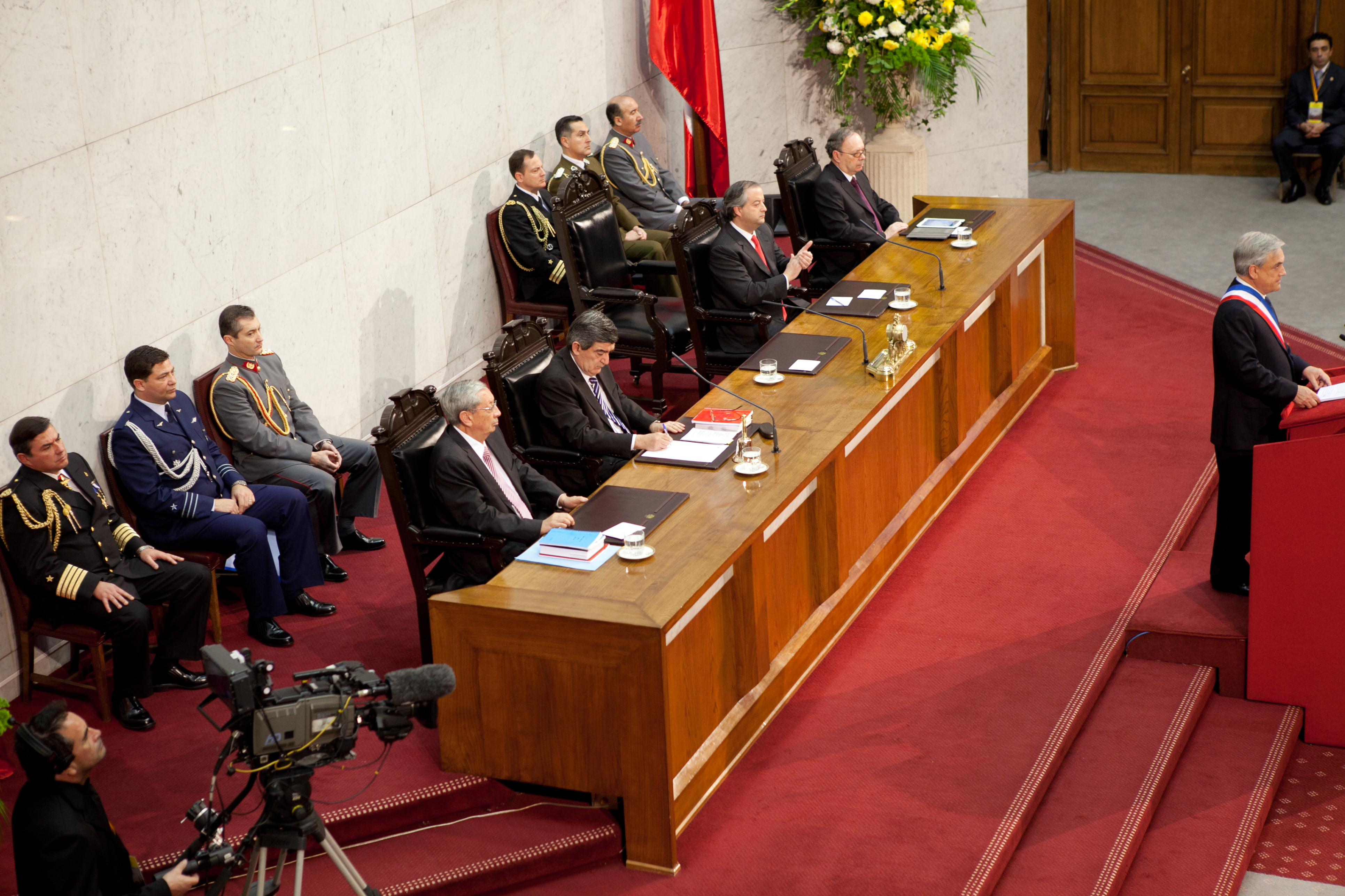 Photographic collection of the Library of the National Congress of Chile.